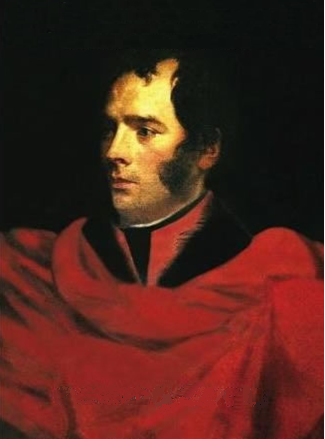 Arthur OConnor biography